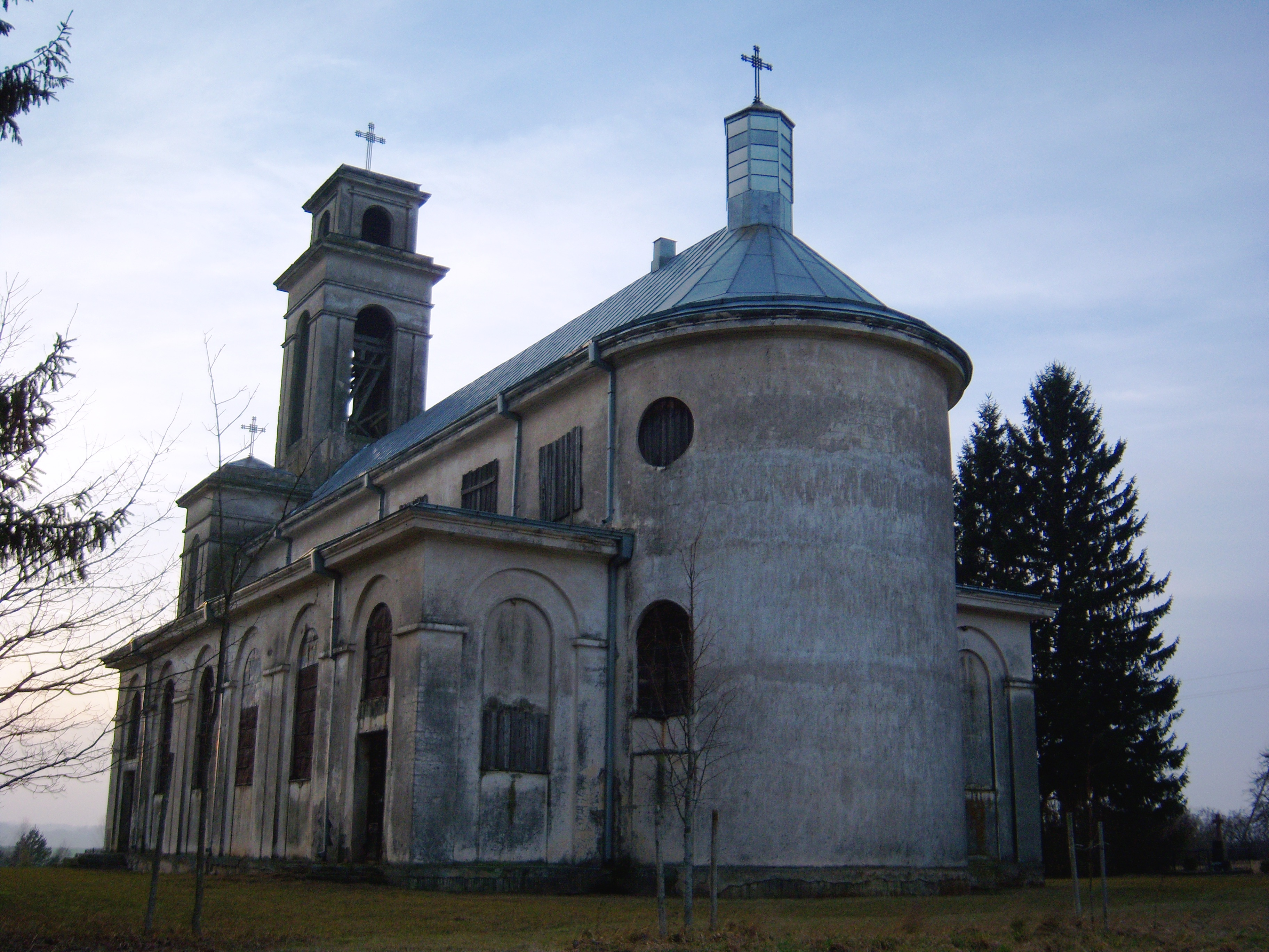 Roman Catholic Church in Palendriai, Kelmė District, Lithuania